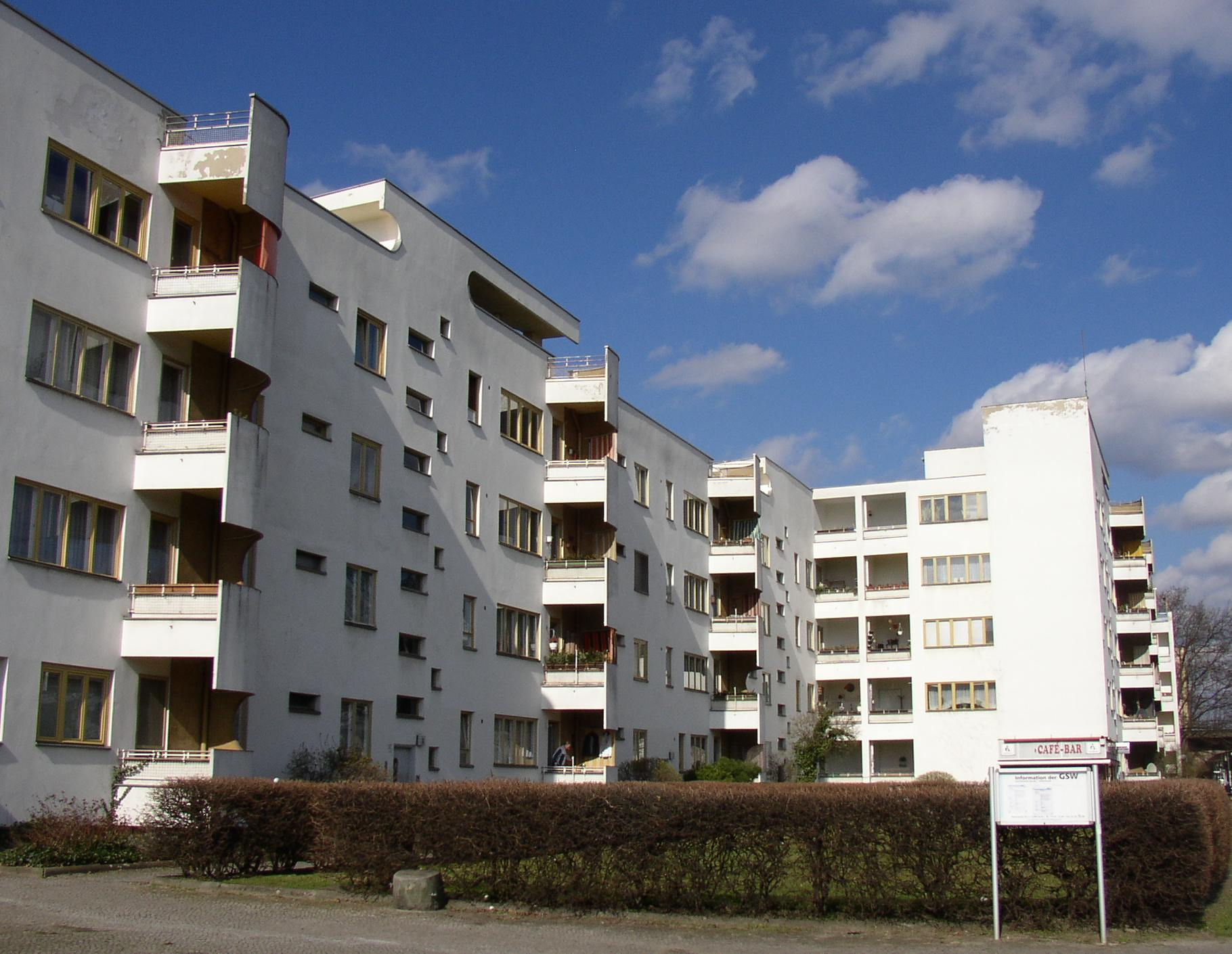 Building by Hans Scharoun in „Großsiedlung Siemensstadt“ in Berlin-Siemensstadt, Germany